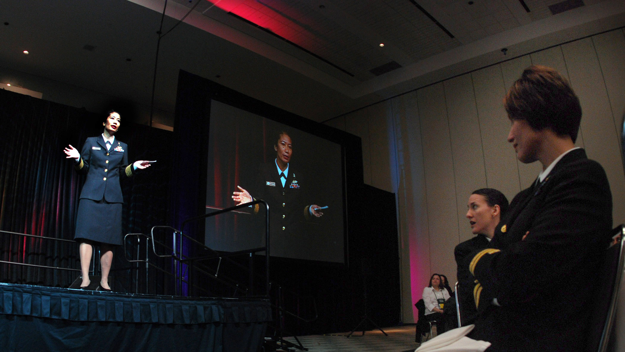 BALTIMORE (Nov. 6, 2008) Capt. Paz B. Gomez delivers the keynote address at the Society of Women Engineers conference in Baltimore. The mission of the society is to help achieve their full potential in careers as engineers and leaders, expand the image of the engineering profession as a positive force in improving the quality of life and demonstrate the value of diversity. (U.S. Navy photo by Mass Communication Specialist 2nd Class Randall Damm/Released)